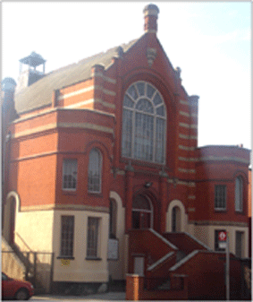 East Ham Baptist Church 2007(pre entrance conversion)